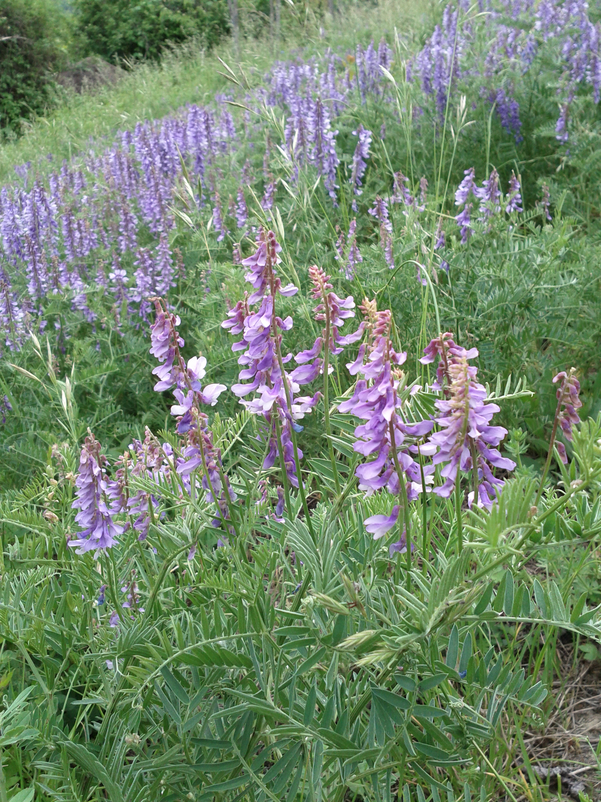 Habitus Taxonym: Vicia tenuifolia ss Fischer et al. EfÖLS 2008 ISBN 978-3-85474-187-9 Location: near Niederhollabrunn, district Korneuburg, Lower Austria - ca. 350 m a.s.l. Habitat: semi-dry grassland